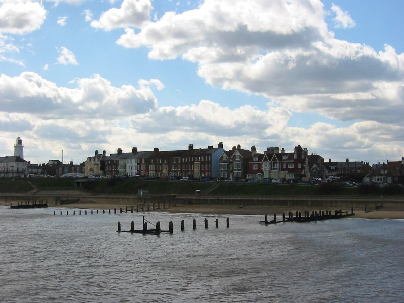 View from the pier of Southwold, Suffolk, England